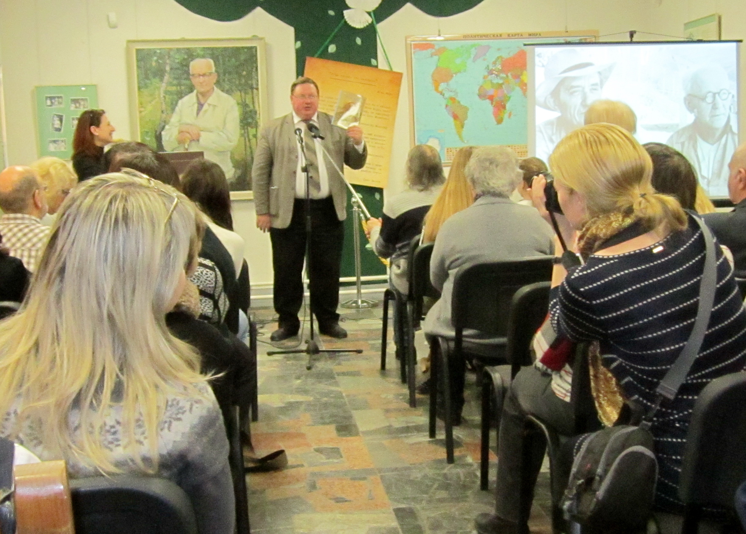 Presentation of the book «Yanka Maur. Our eternal Robinson: touches to the portrait», published by «Artistic literature», 2018. The editor of the book, the leading editor of the publishing house «Artistic literature» Dmitry Petrovich